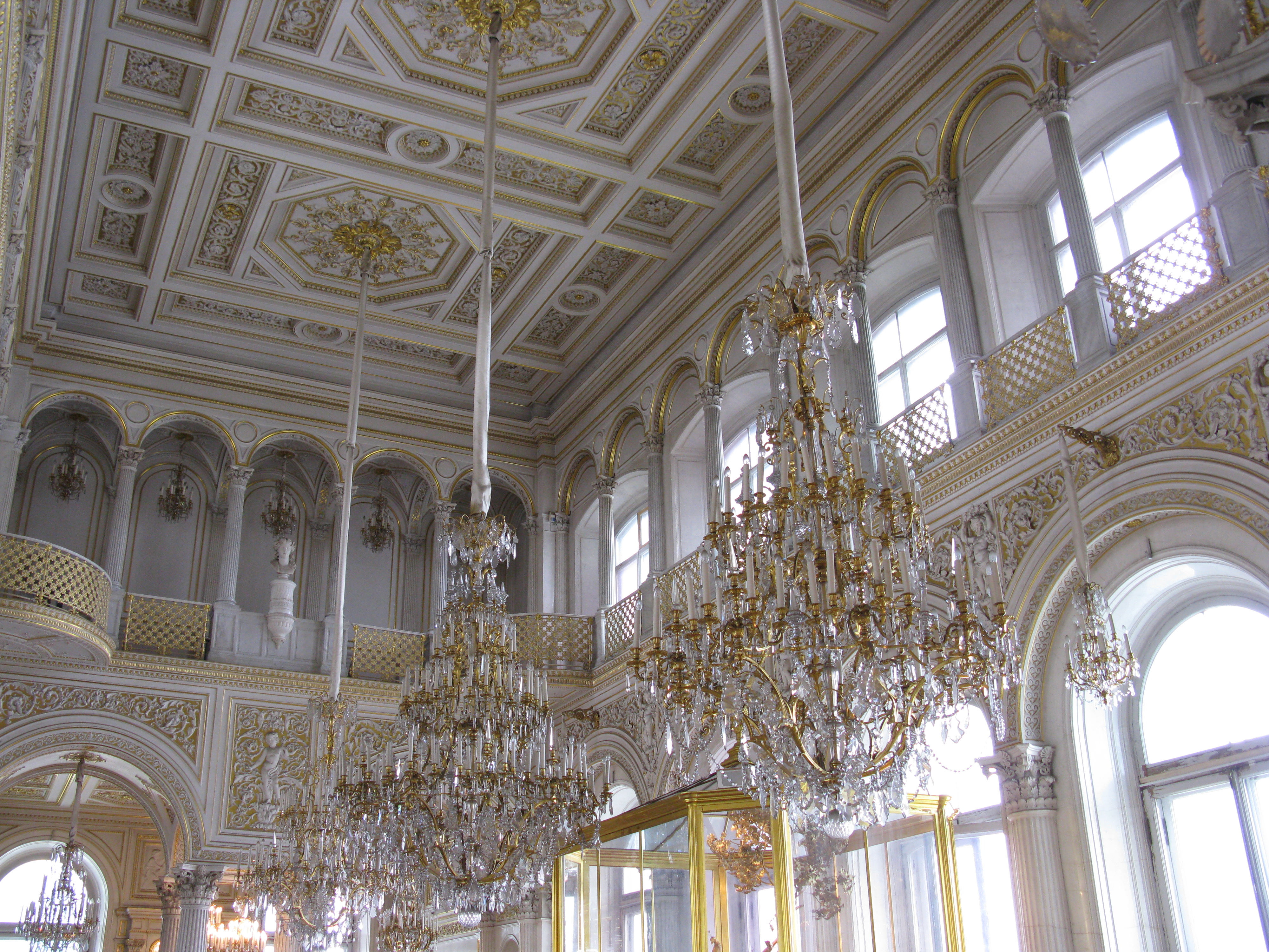 The Pavillion Hall of the Small Hermitage